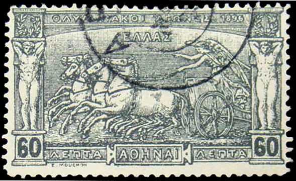 Stamp of Greece, The First Olympic Games, 1896, 60 l.